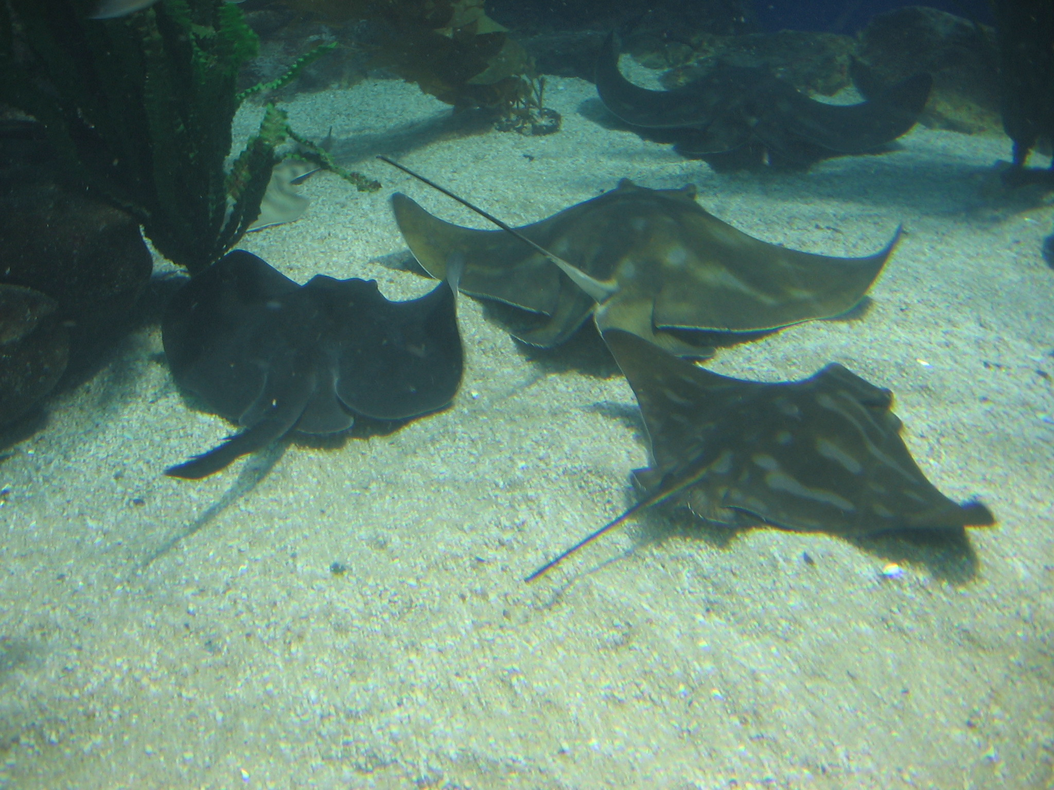 Australian bull rays (Myliobatis australis) at the Melbourne Aquarium.